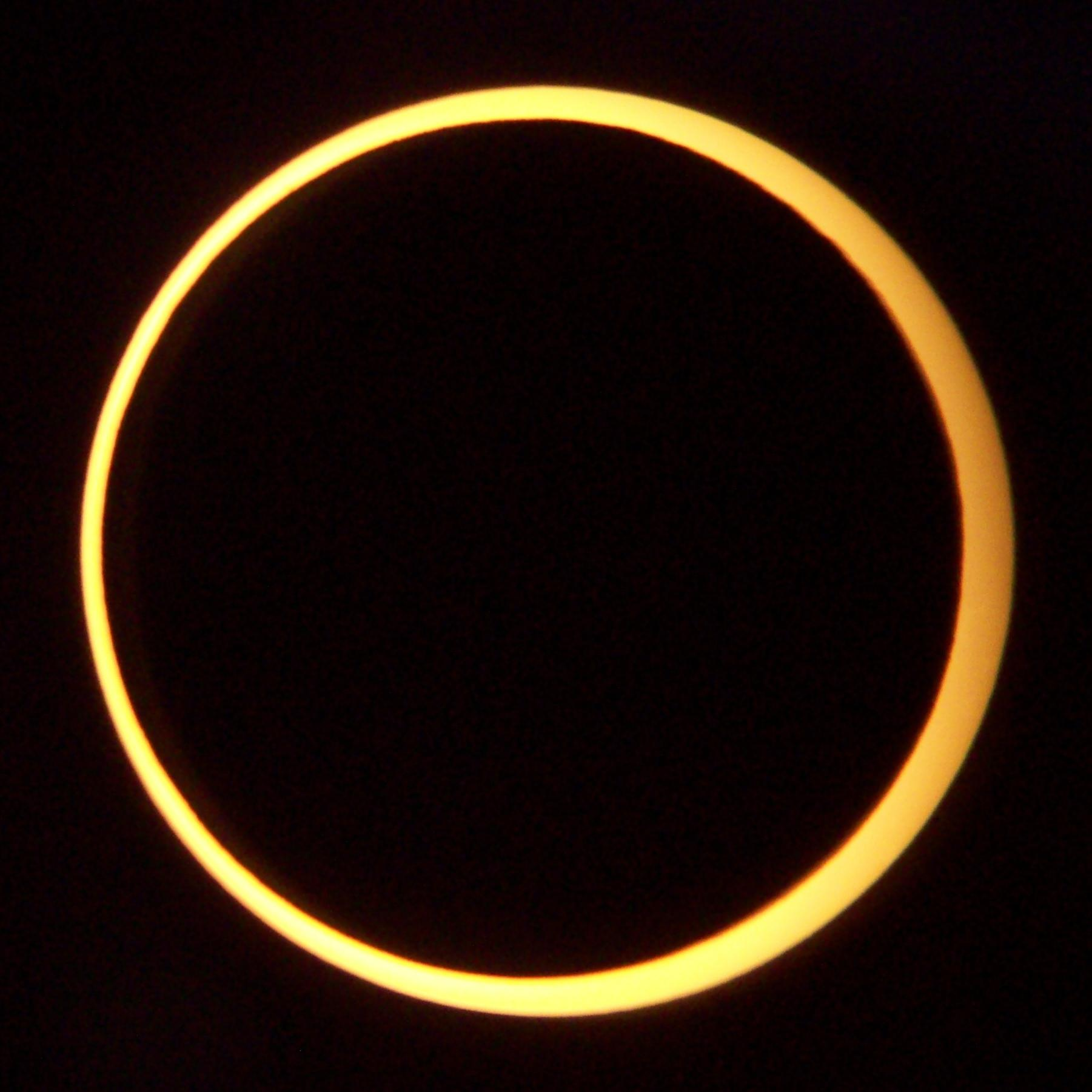 Annular eclipse. Taken from a 8" Reflector with a solar filter